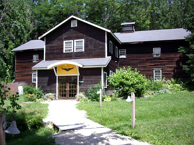 The Meditation Hall on the main campus of the Abode of the Message, a spiritual intentional community in New Lebanon, NY, associated with the Sufi Order International. The building was formerly an apple barn, built and used by the South Family of the Mount Lebanon Shaker Village community